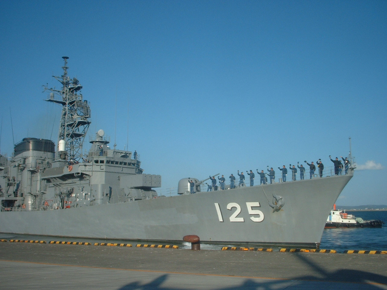 JMSDF DD-125 crew swing their caps, as a greeting of separation.